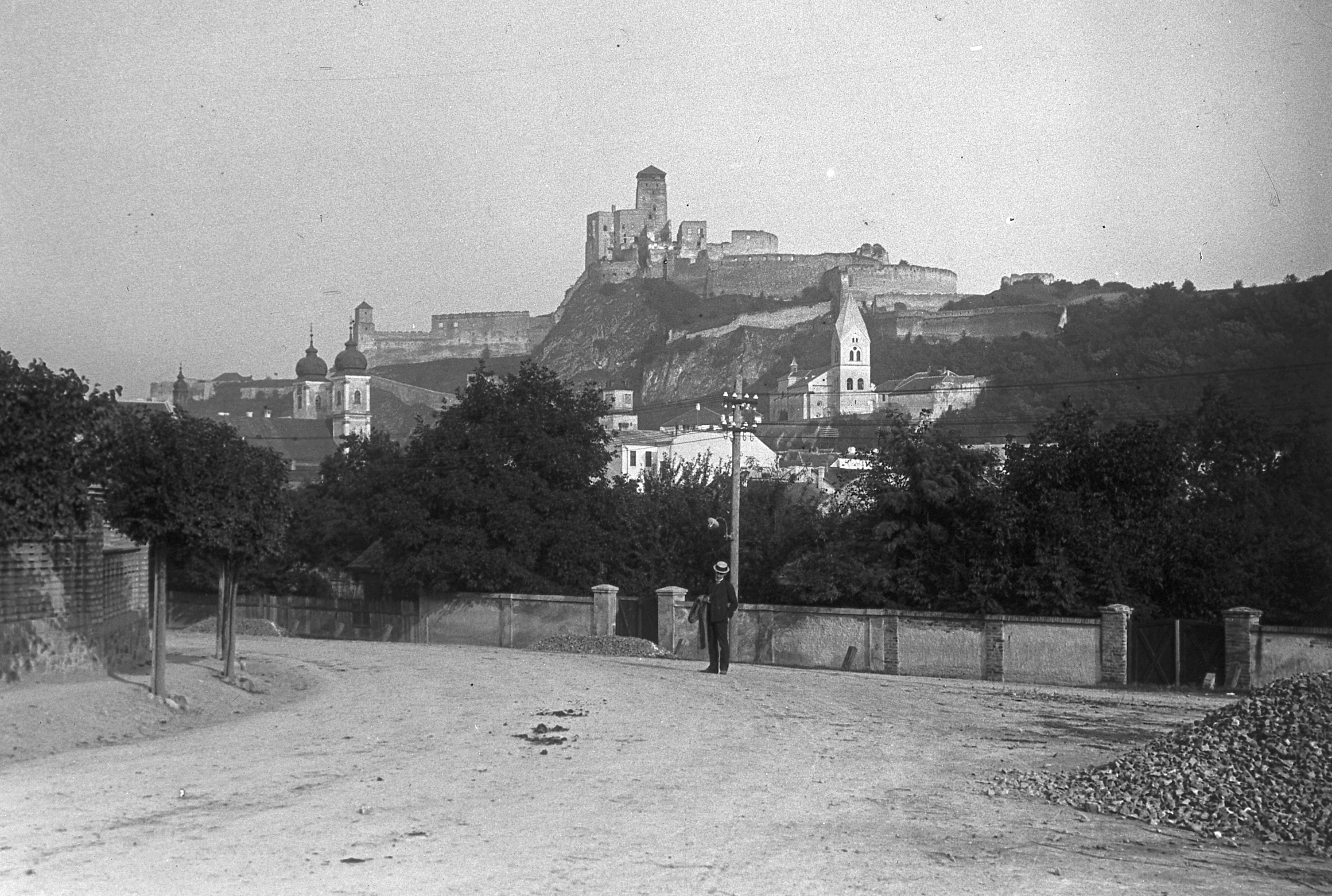 Location: Slovakia, Trencin Tags: castle, church